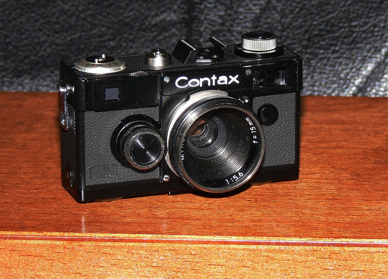 Minox classic Contax I